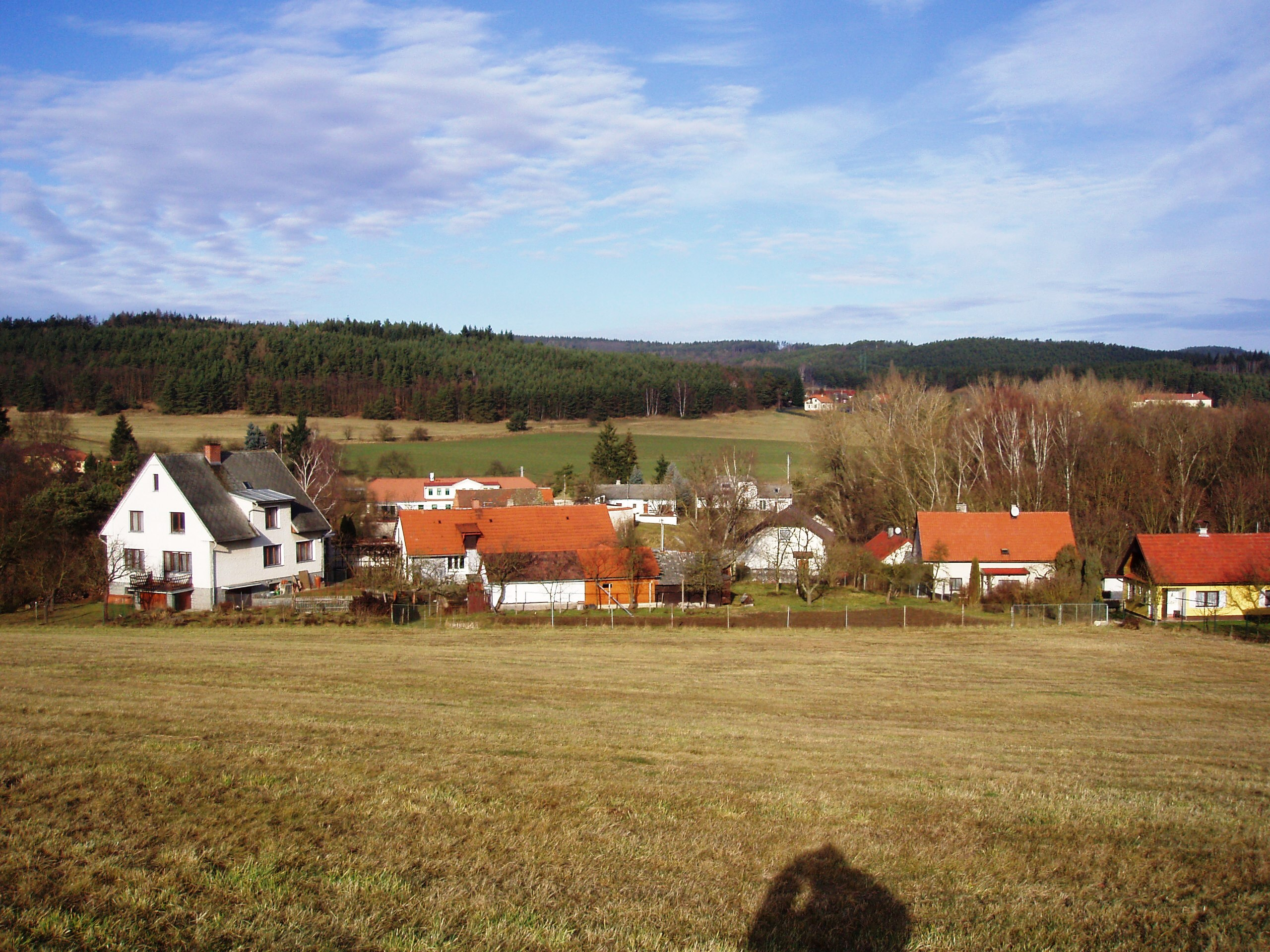 Slovanská Lhota - celkový pohled